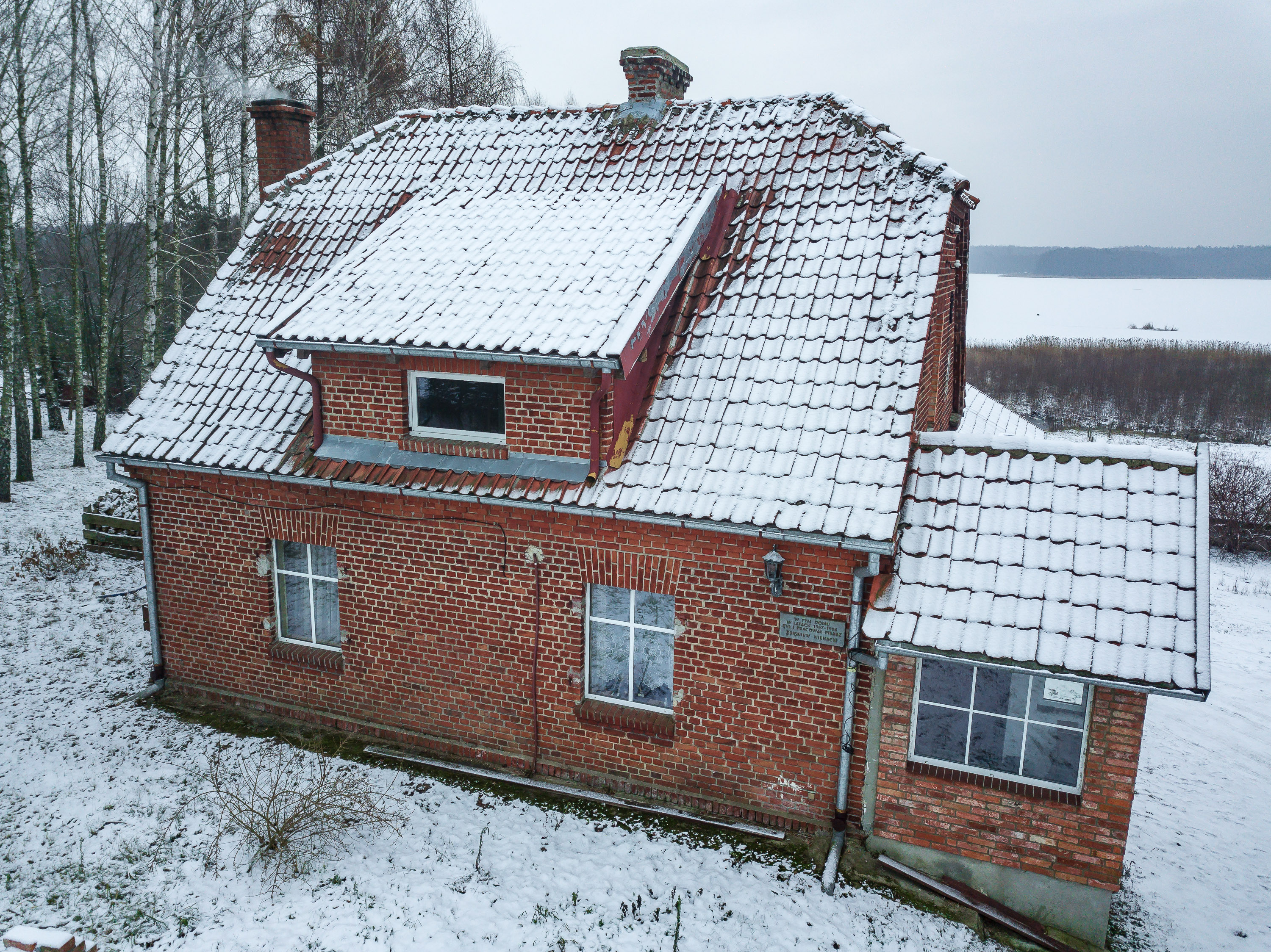 Zbigniew Nienacki’s house in Jerzwałd